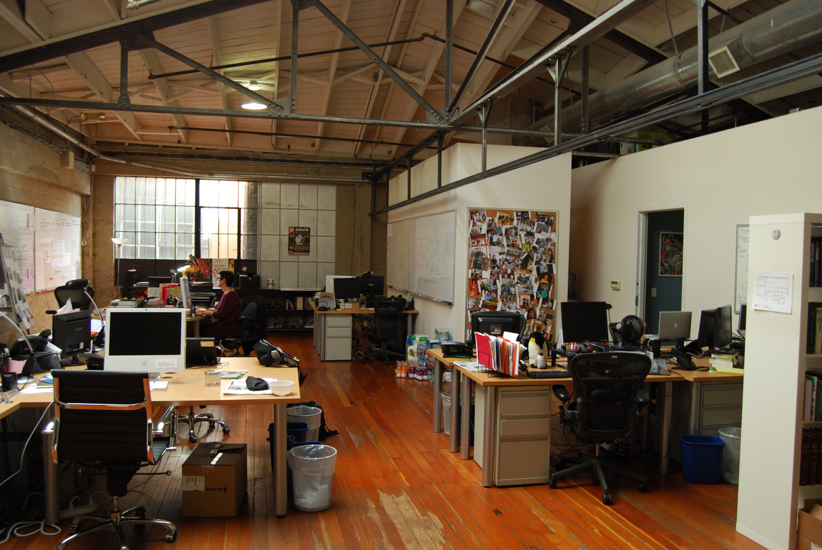 维基媒体基金会的办公室（美国加利福尼亚州旧金山湾区South Of Market，Stillman街39号） Office of the Wikimedia Foundation(39 Stillman St, San Francisco, California, United States)